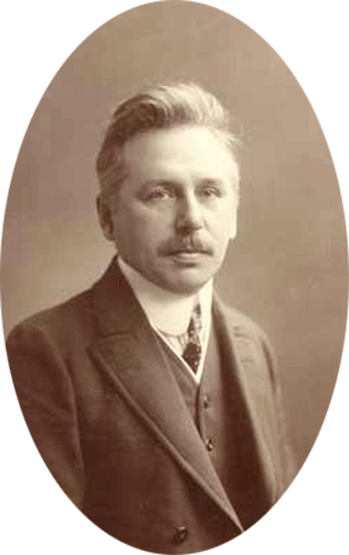 Armas Jarnefelt, brother in law of Jean Sibelius.